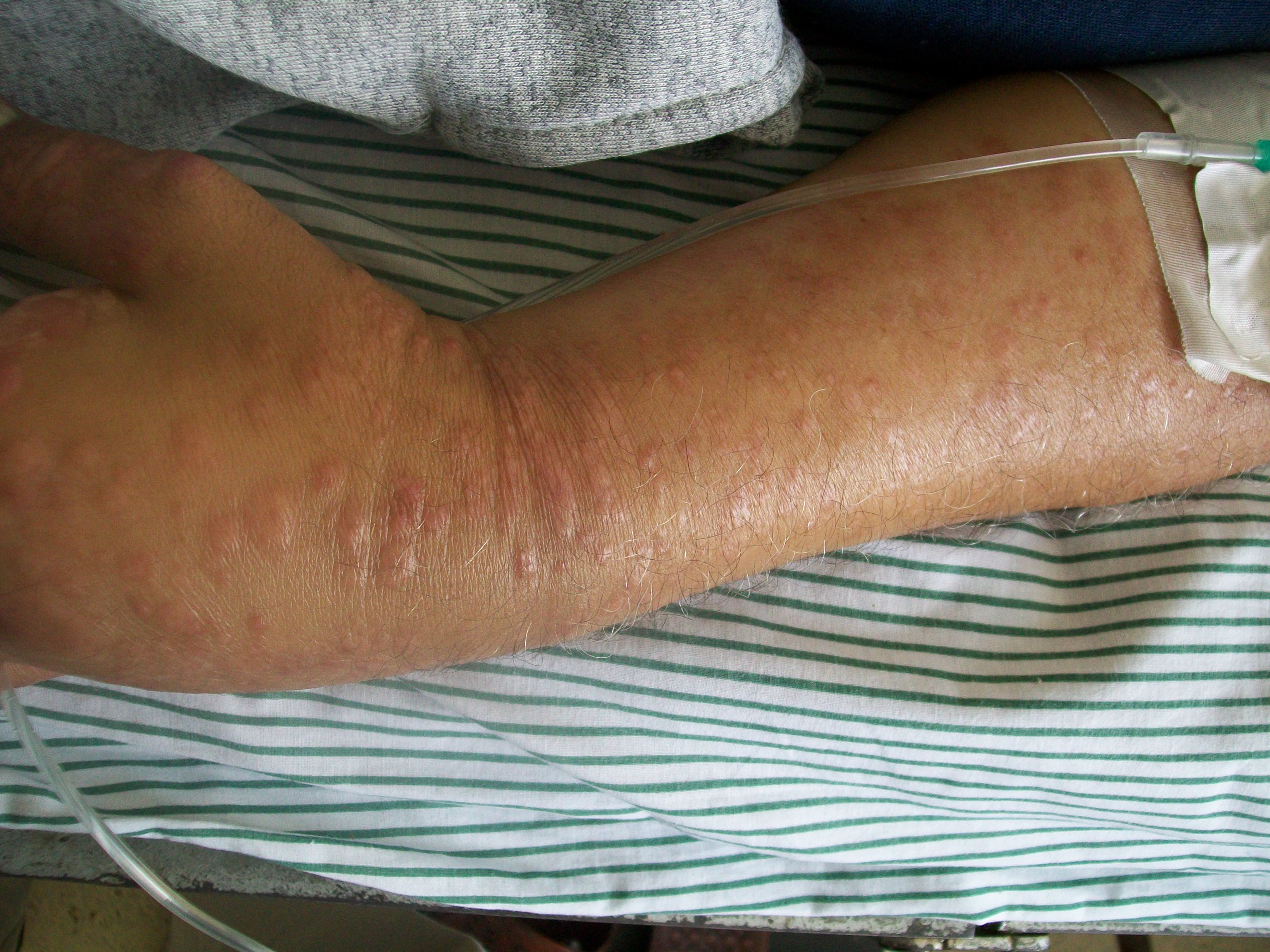 Wrist and hand of a 52 year old male patient with Mycosis fungoides (also known as Alibert-Bazin syndrome), the most common form of cutaneous T-cell lymphoma.